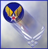 World War II emblem of the United States Army Air Forces and 21st century logo of the United States Air Force derived from it